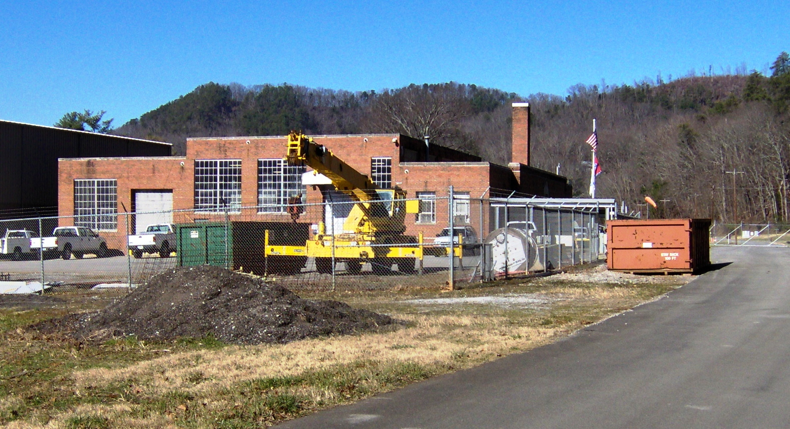 Calderwood Dam service building in the old Calderwood community in Blount County, Tennessee, USA. The building is located just over a mile downstream from the dam.